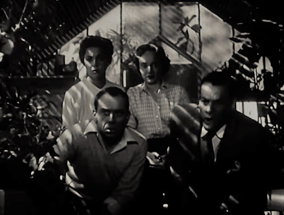 L. to R. : Dana Wynter, King Donovan, Carolyn Jones & Kevin McCarthy in Invasion of the Body Snatchers - trailer (cropped screenshot)